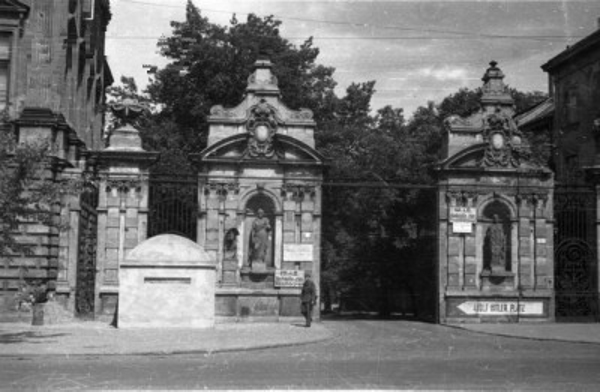 Month before WarsawUprising: Bunker in front of gate to University of Warsaw converted to a base for Wehrmacht viewed from Krakowskie Przedmieście Street.